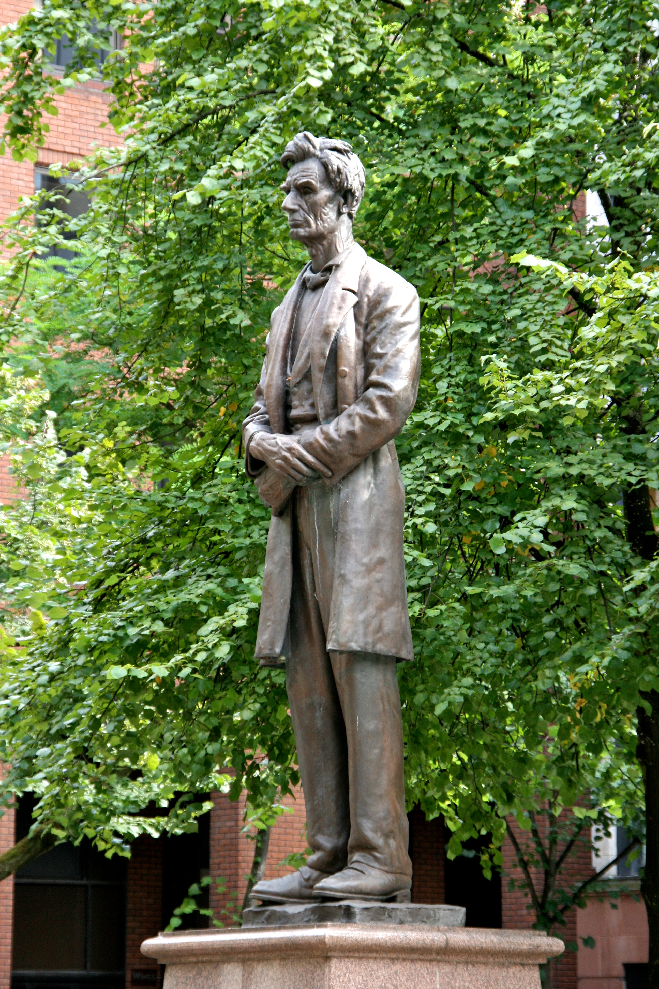 Statue of Abraham Lincoln in Lincoln Square, Manchester, England.